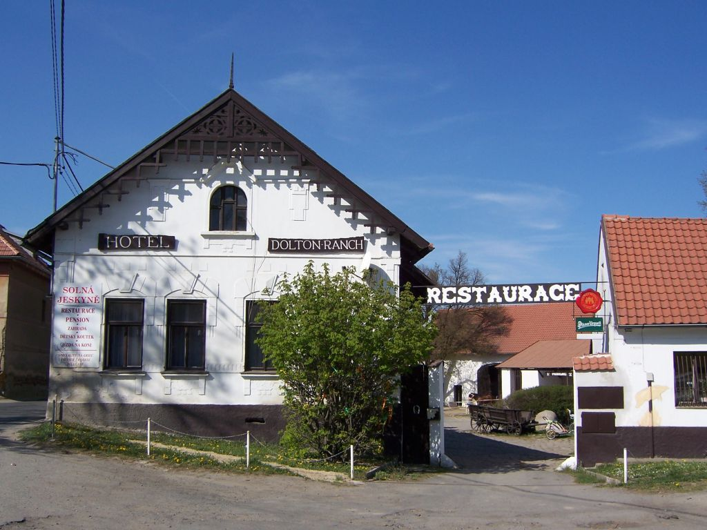 Svojetice, Dolton Ranch Česky: Svojetice, Dolton Ranch